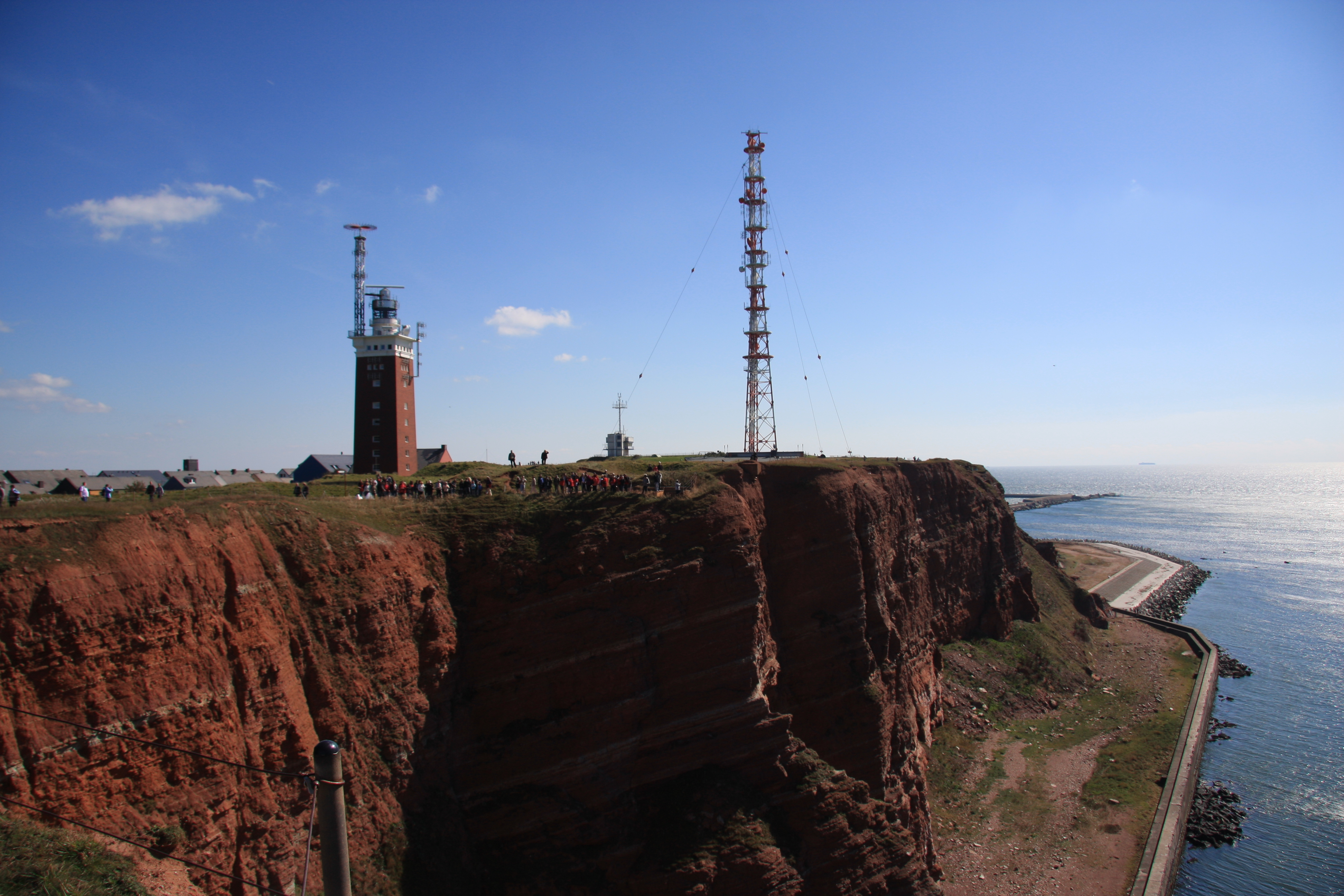 A Transmitter tower (on the right)on Heligoland